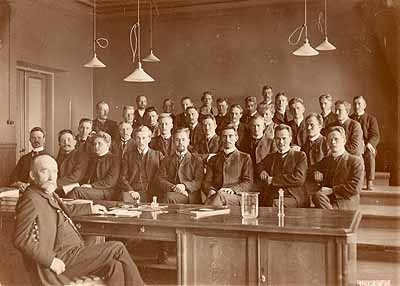 Male pupils of the Jyväskylä teacher seminary at the turn of the 20th century (before 1909)